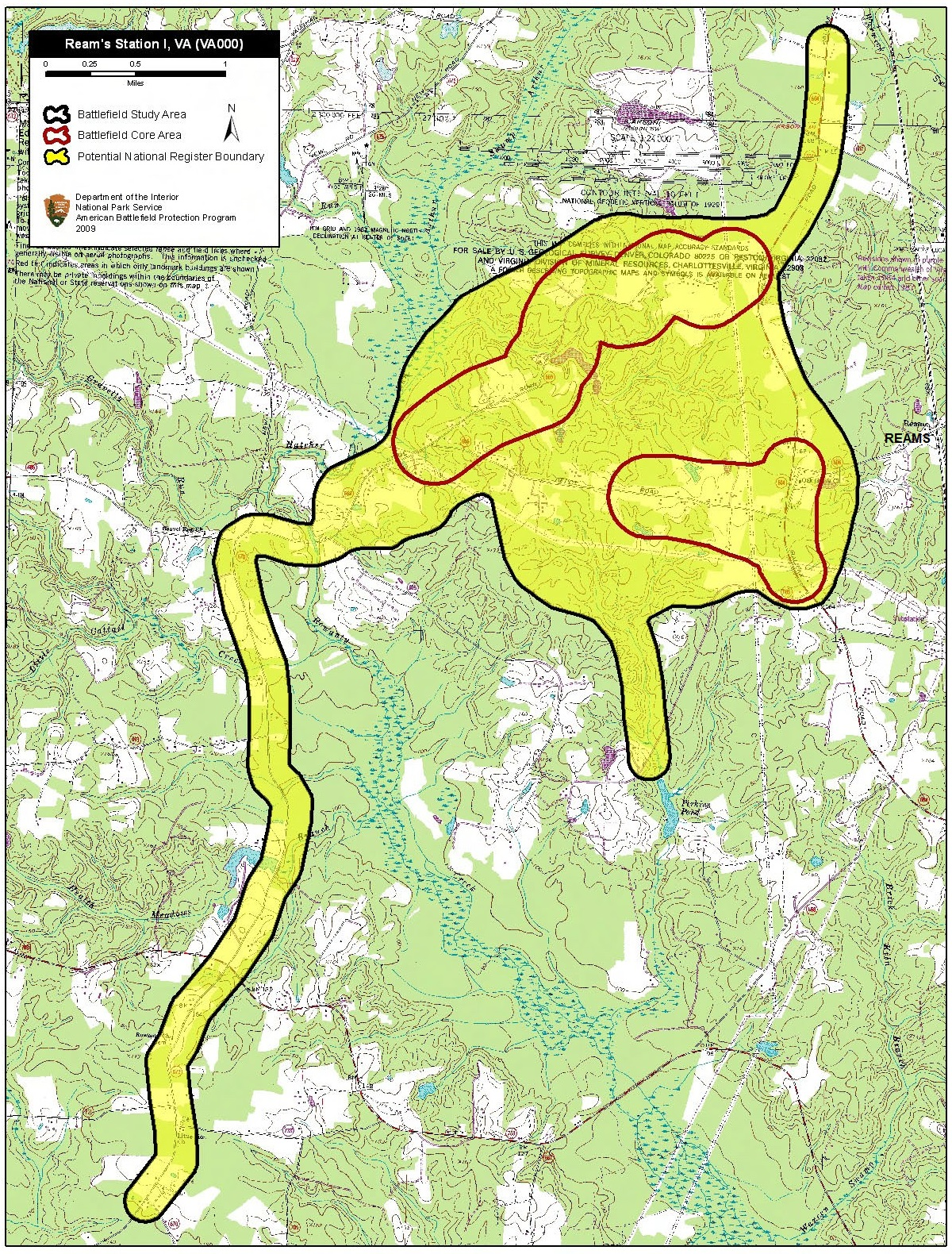 Map of battlefield core and study areas. Reference USGS topographic map Carson, Virginia.